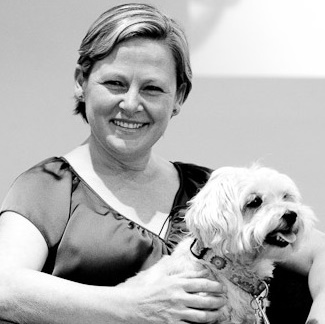 Pauleen Bennett, psychologist who studies anthrzoology